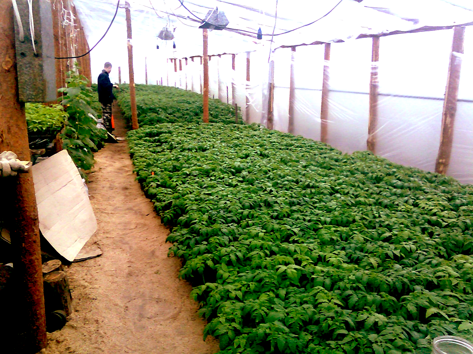 vteplice